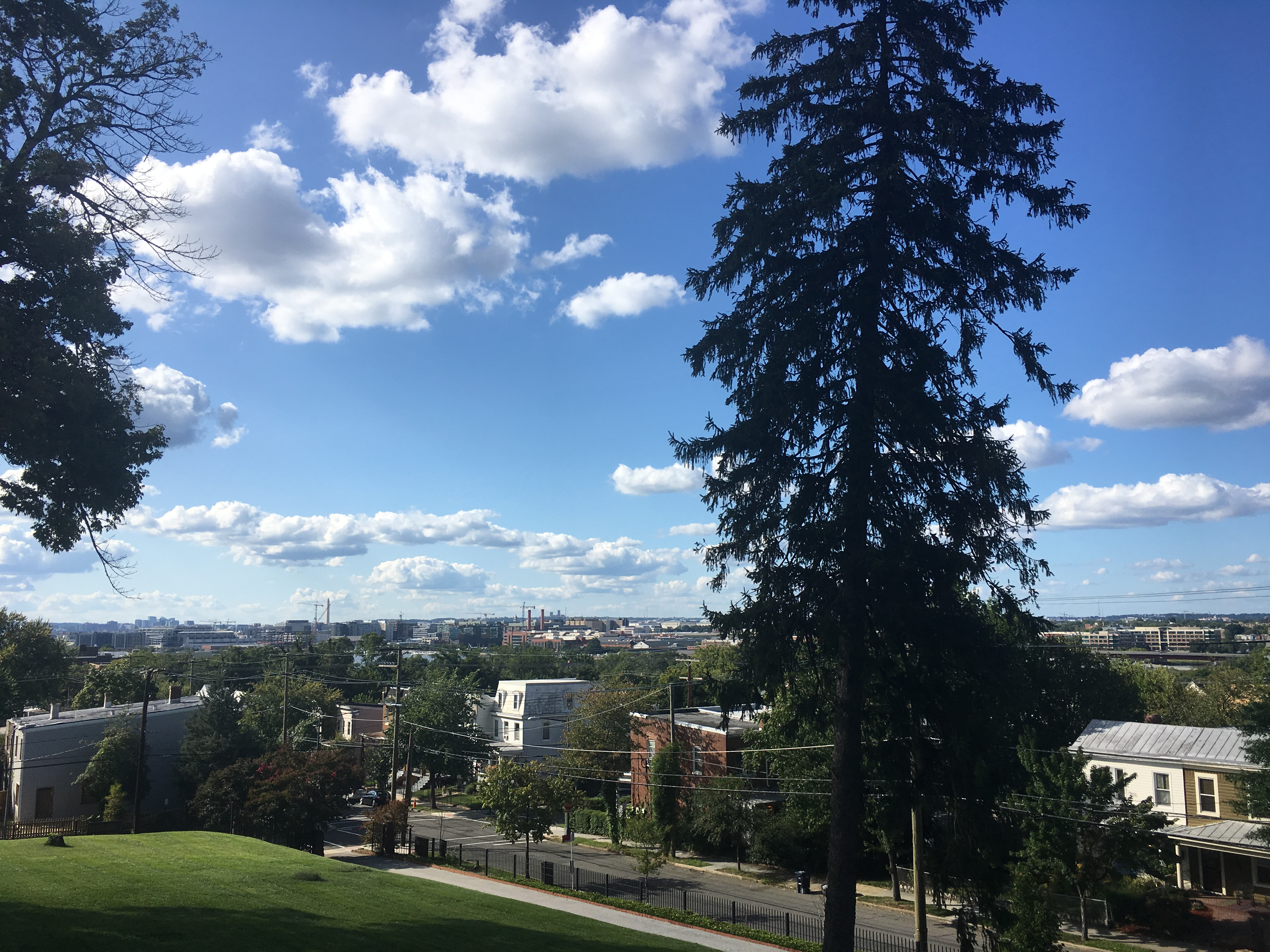 The view of Washington, DC taken from the 2nd floor bay window of the Cedar Hill House. September, 2017